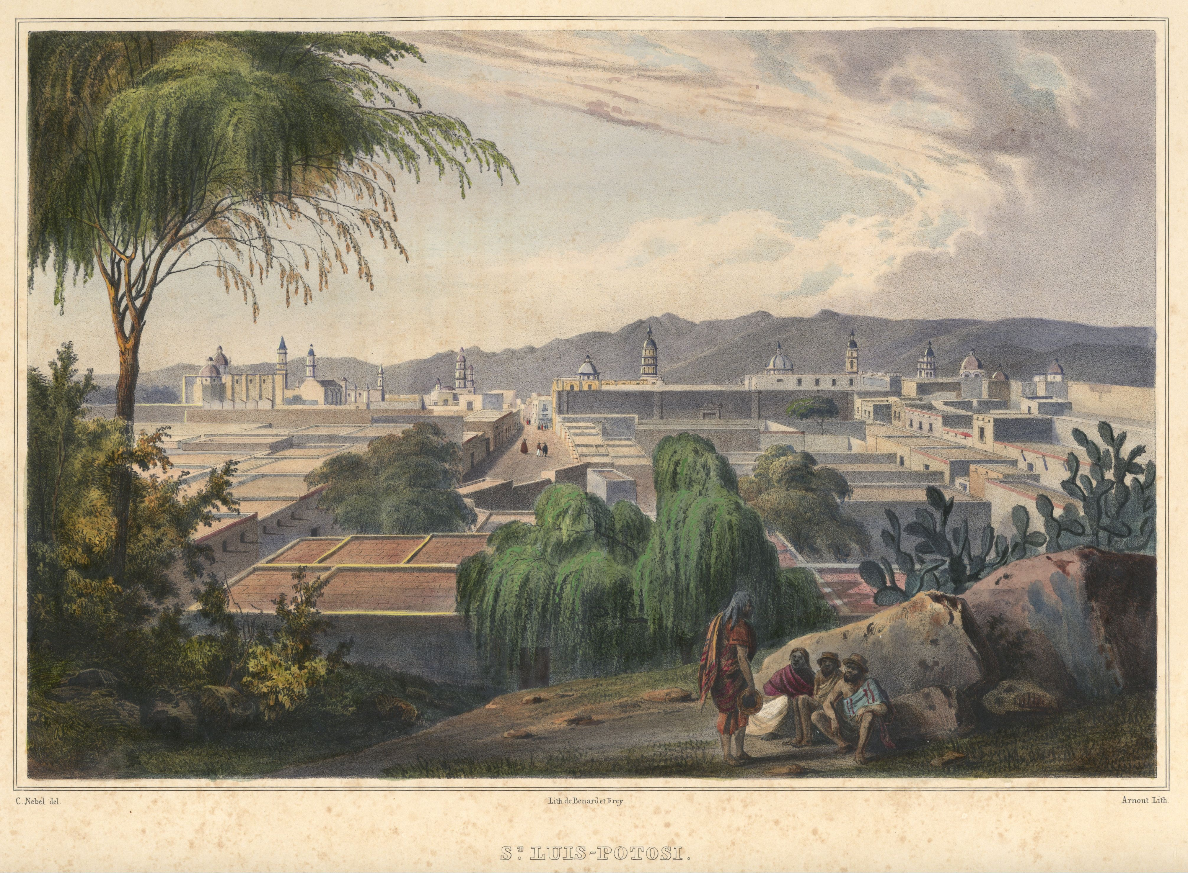 St. Luis-Potosí. View of San Luis Potosí, San Luis Potosí. Hand-colored lithograph highlighted with gum arabic. Original size (neat lines): 33×22 cm.